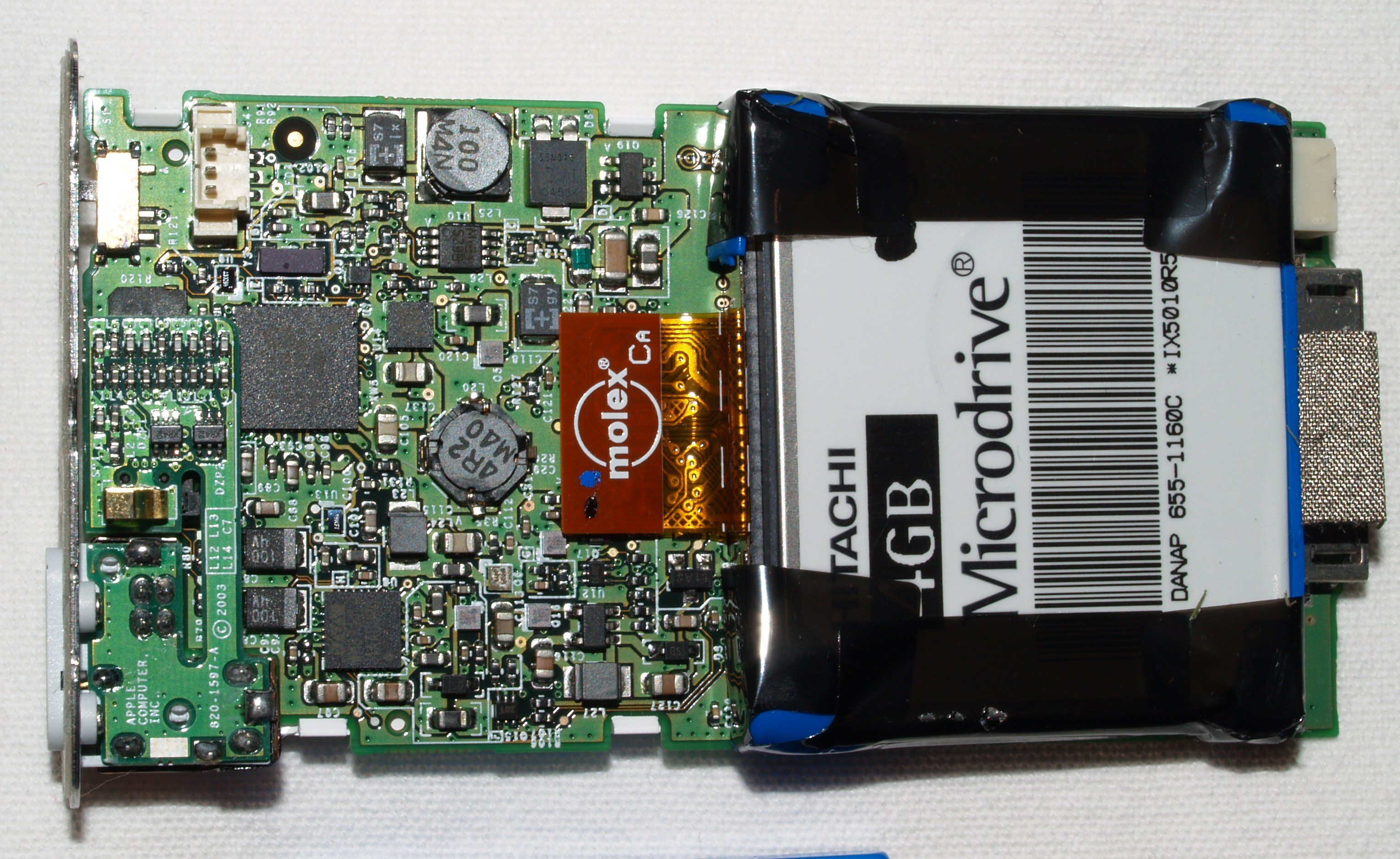 Photo of iPod mini microdrive taken by me.